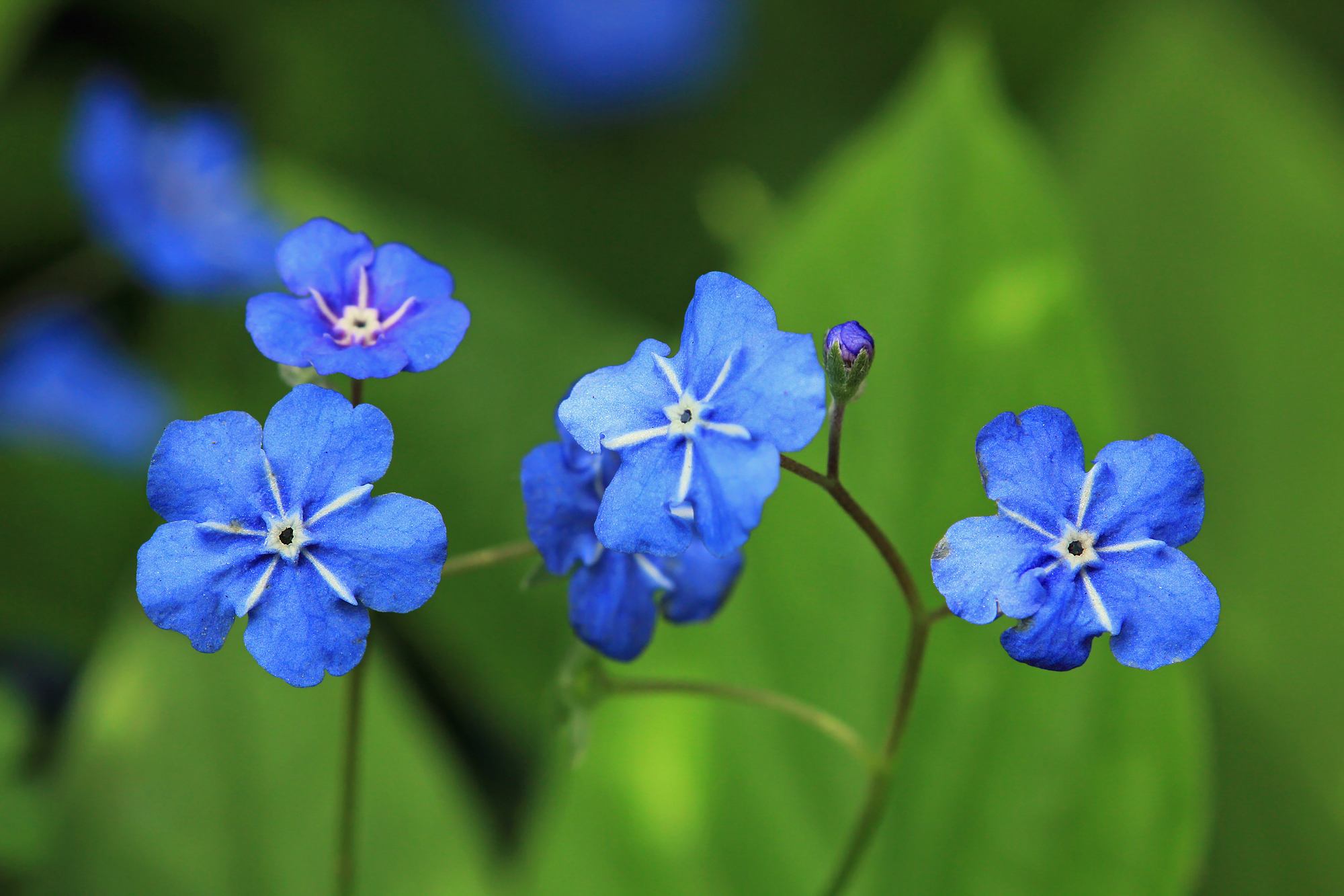 Flowering plant of Omphalodes verna (Boraginaceae). The species' origin is the eastern pre-alpine and sub-mediterranean area; in Germany it is naturalized as a neophyte.